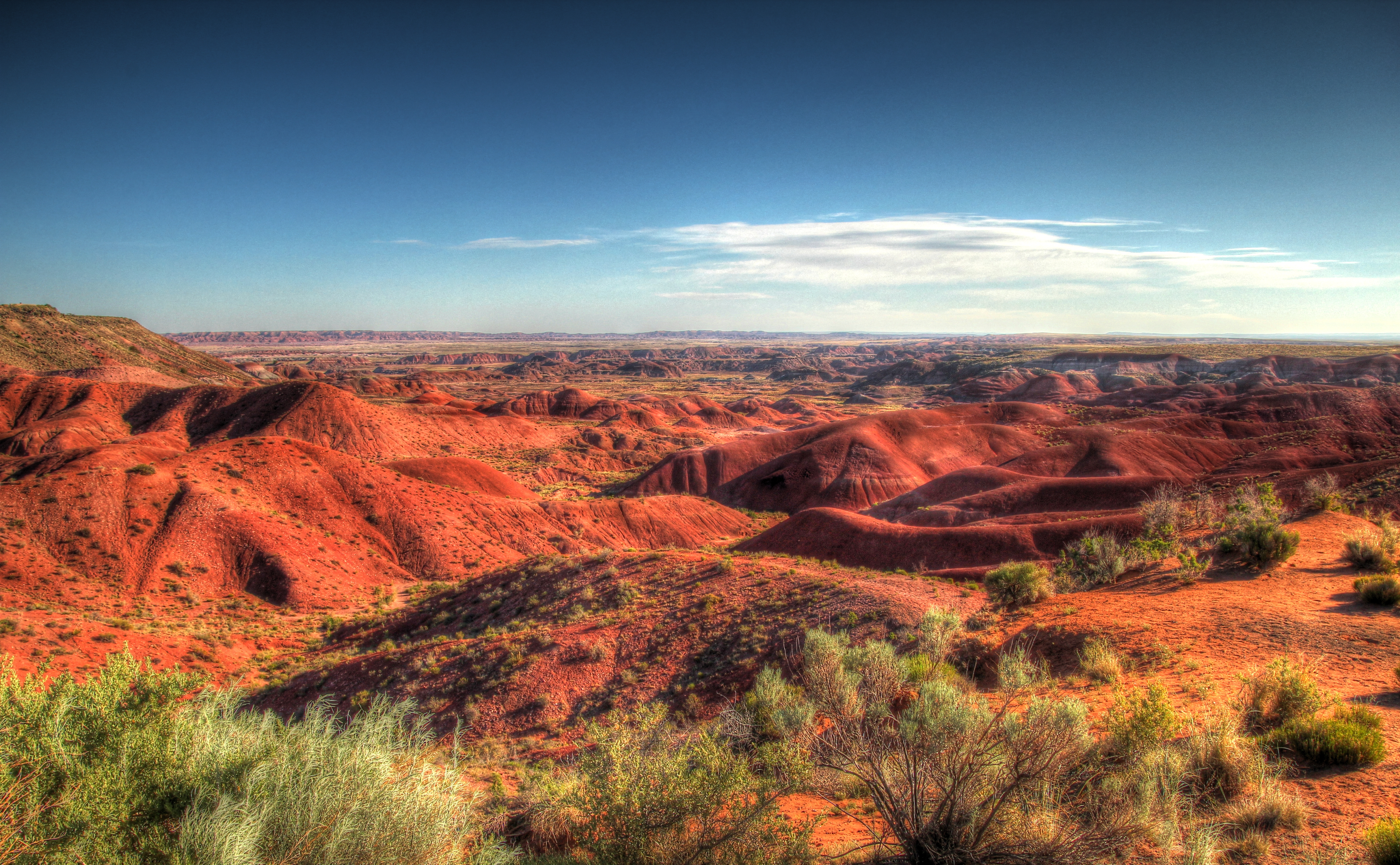 HDR of Painted Desert in Arizona.